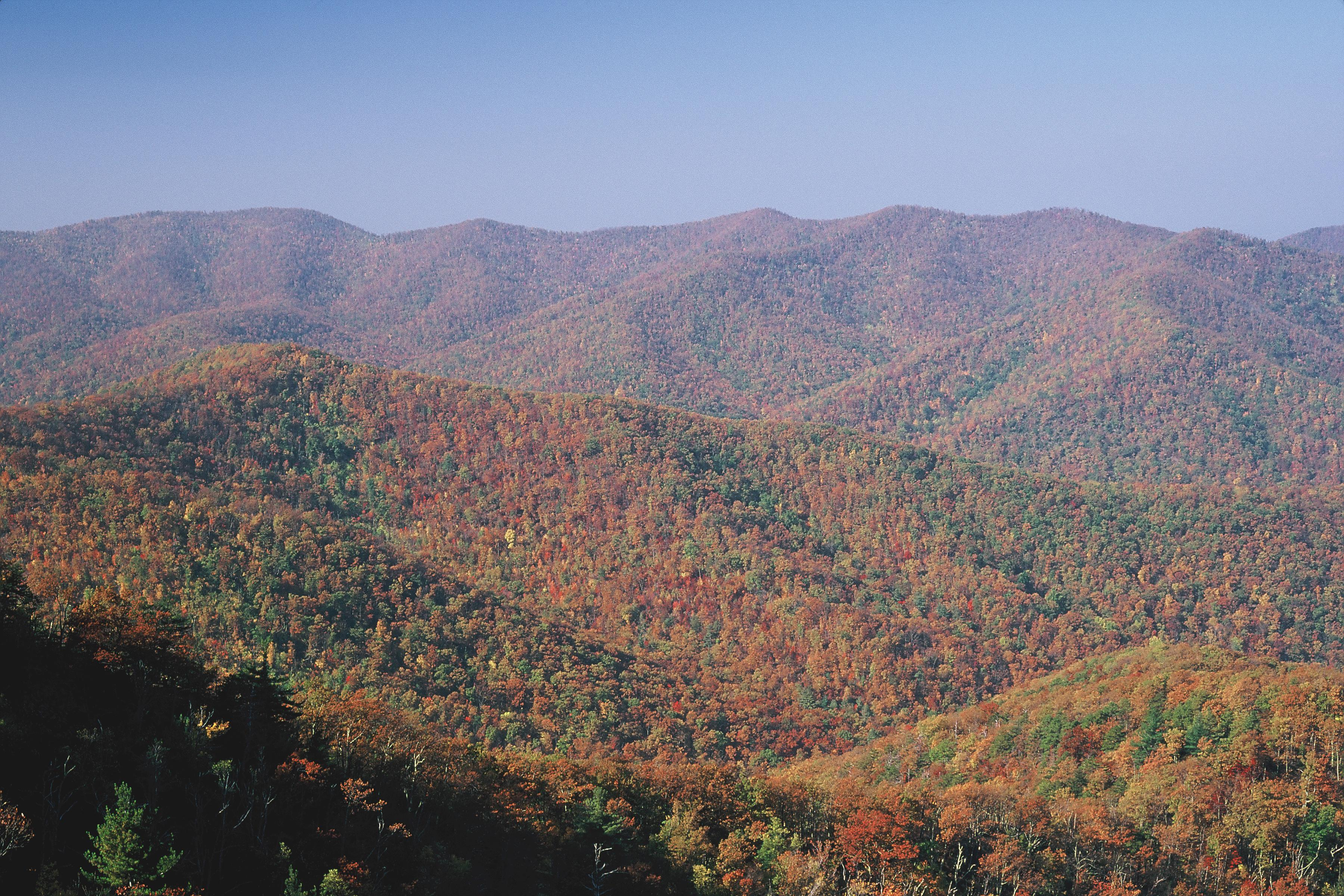 Rockytop and Patterson Ridges